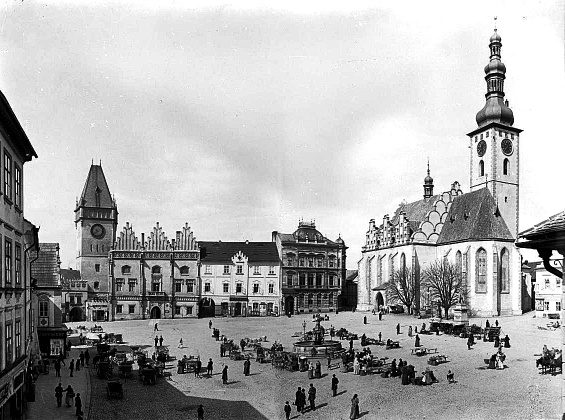 Main square in Tábor with city hall and church